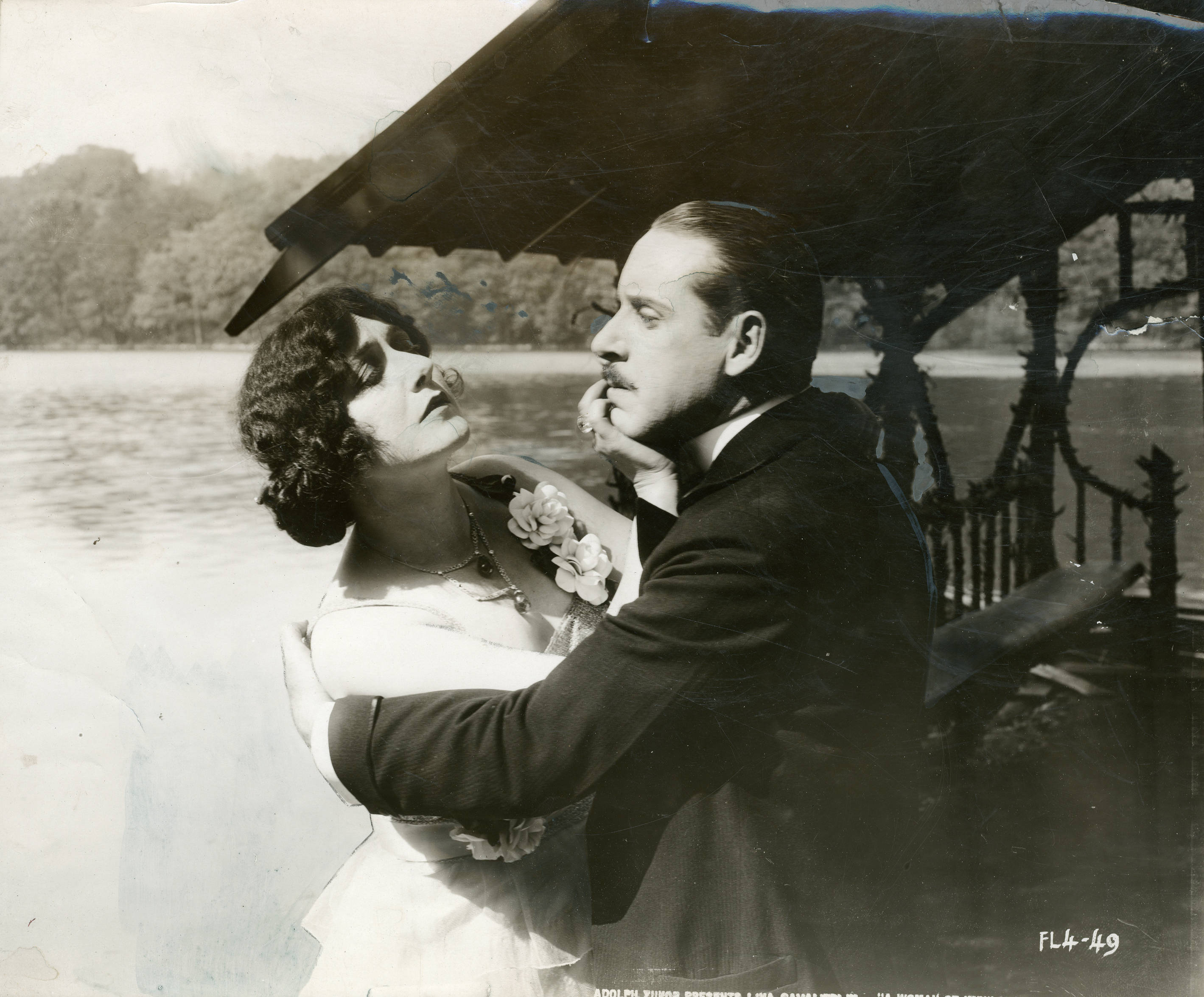 A scene from the American drama film A Woman of Impulse (1918), which played at the Coliseum Theater. Includes Lina Cavalieri. Subjects: motion pictures, actresses